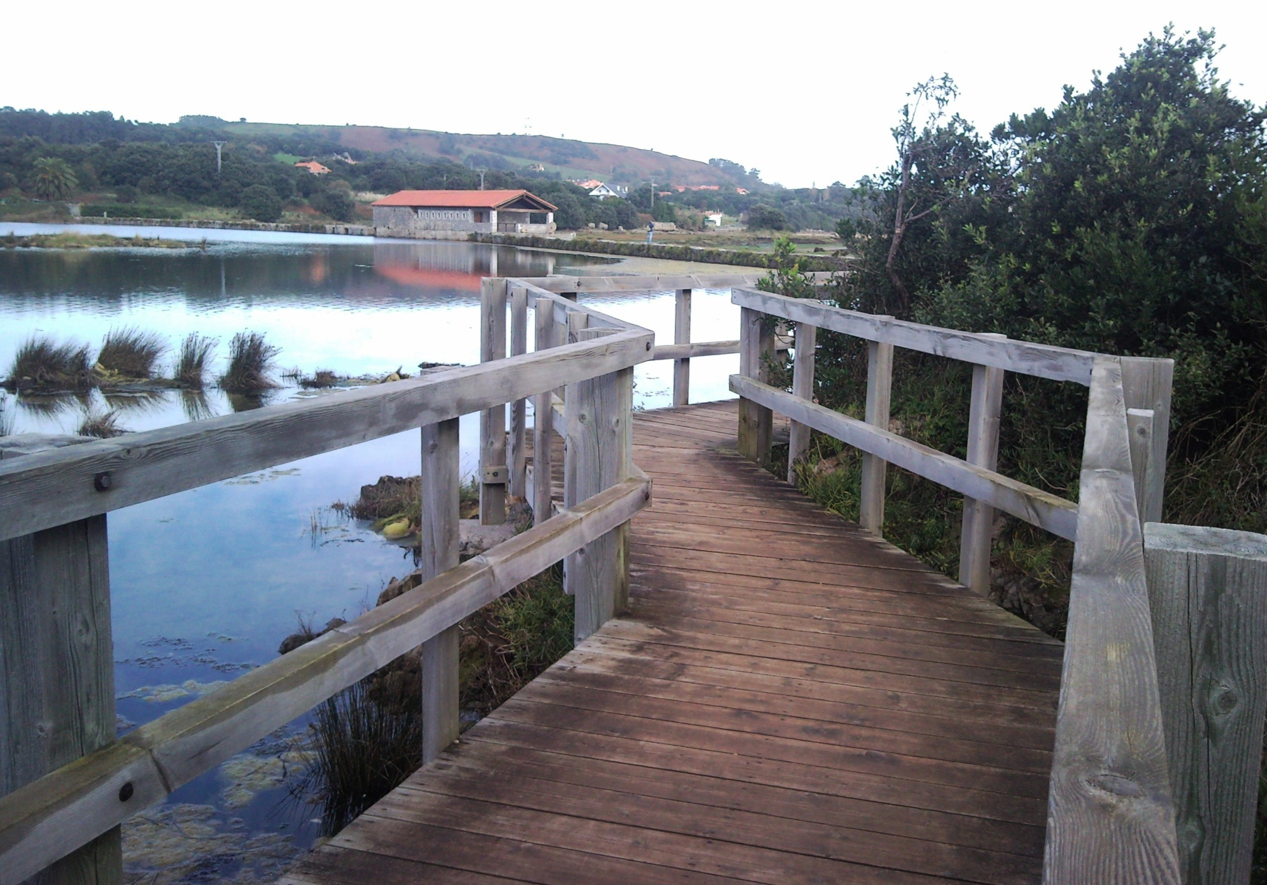 Marshes of El Joyel and Soano, with the old tide mill of Santolaja (Arnuero, Cantabria, Spain)